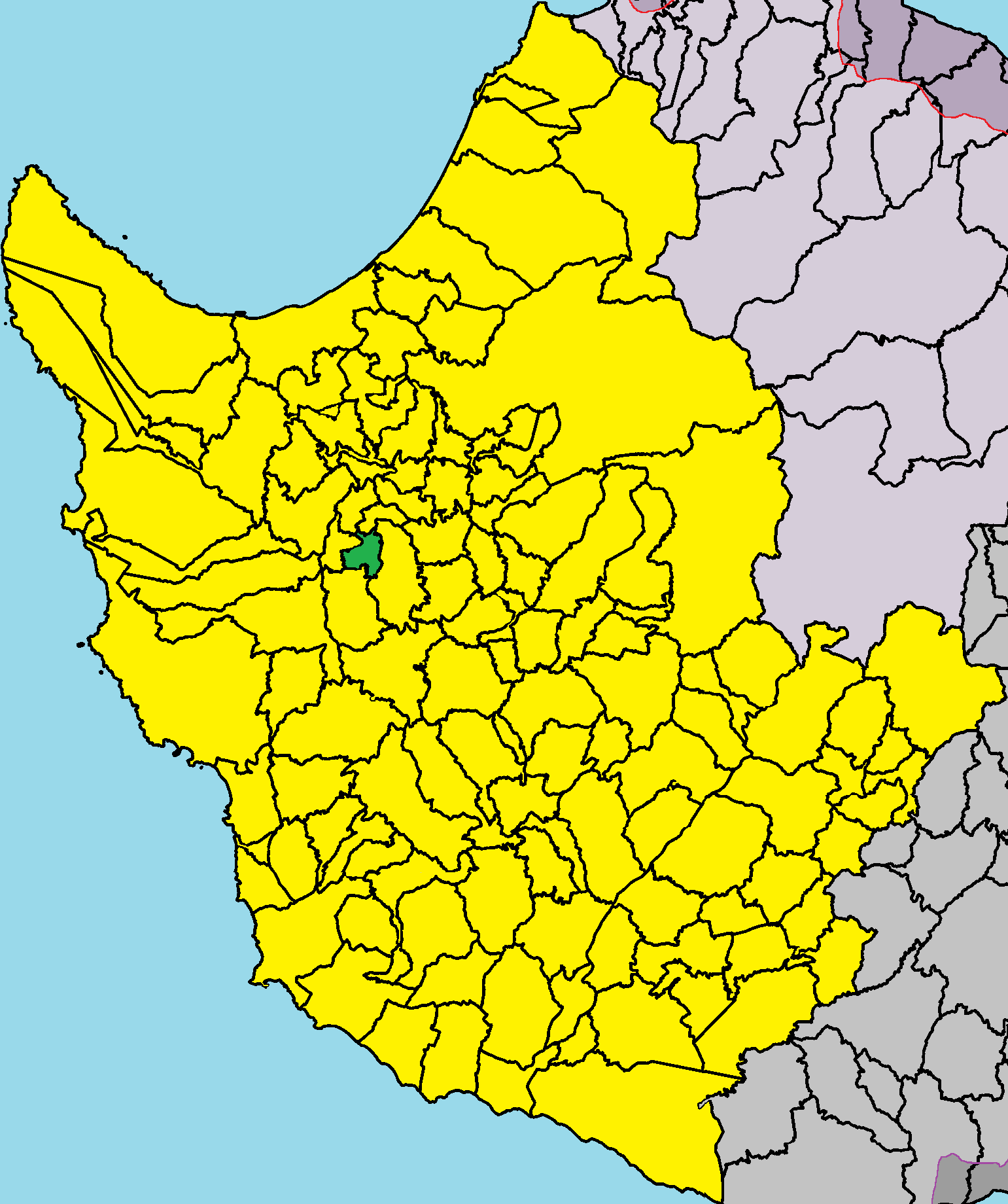 Miliou in Paphos District.